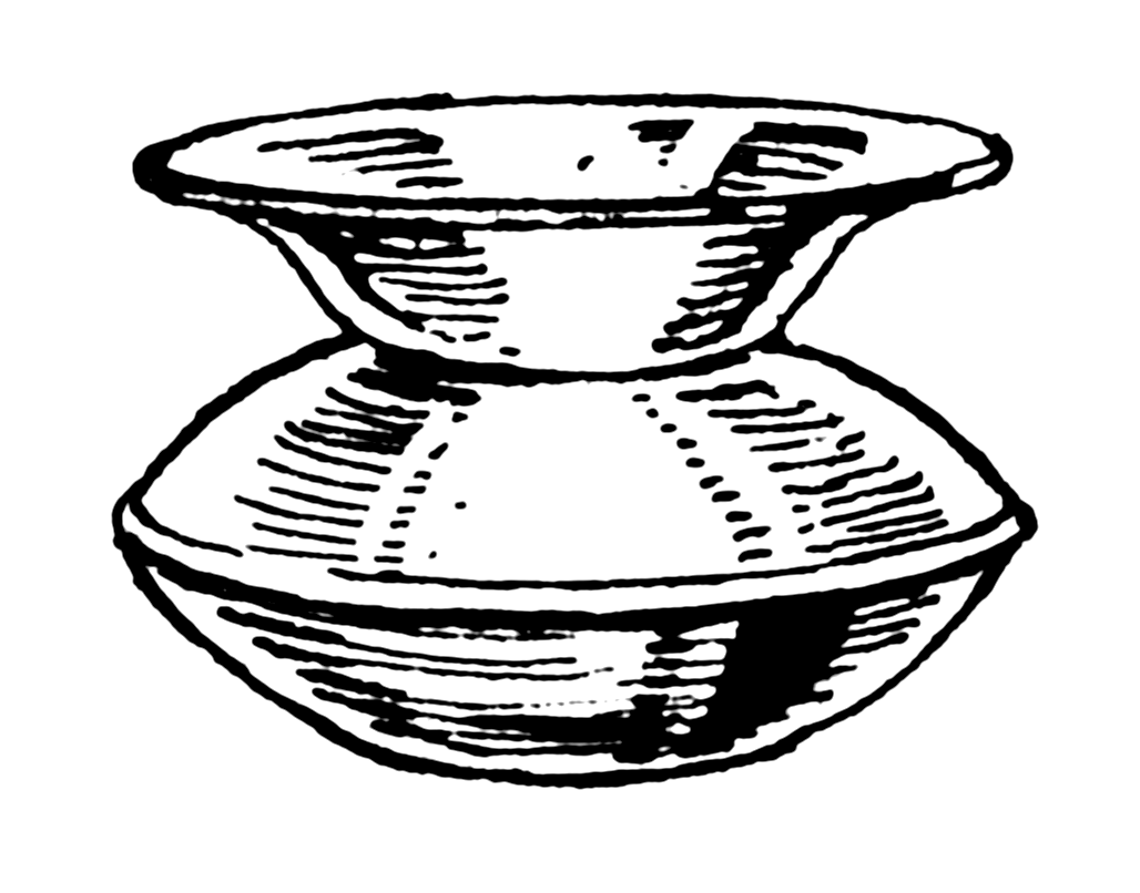 Line art drawing of a spittoon.